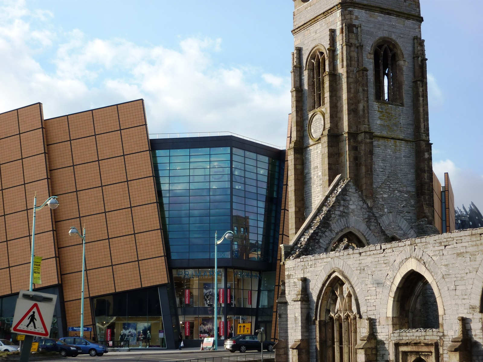 Charles Church and Drake Circus Shopping Centre, Plymouth A closer view of the Charles Church tower and the windows at the end of the shopping centre. A slightly ghostly image of a woman's face peers out from behind the plate glass. The ruined church is a memorial to 1200 lives that were lost in the bombing of the city during the Second World War.